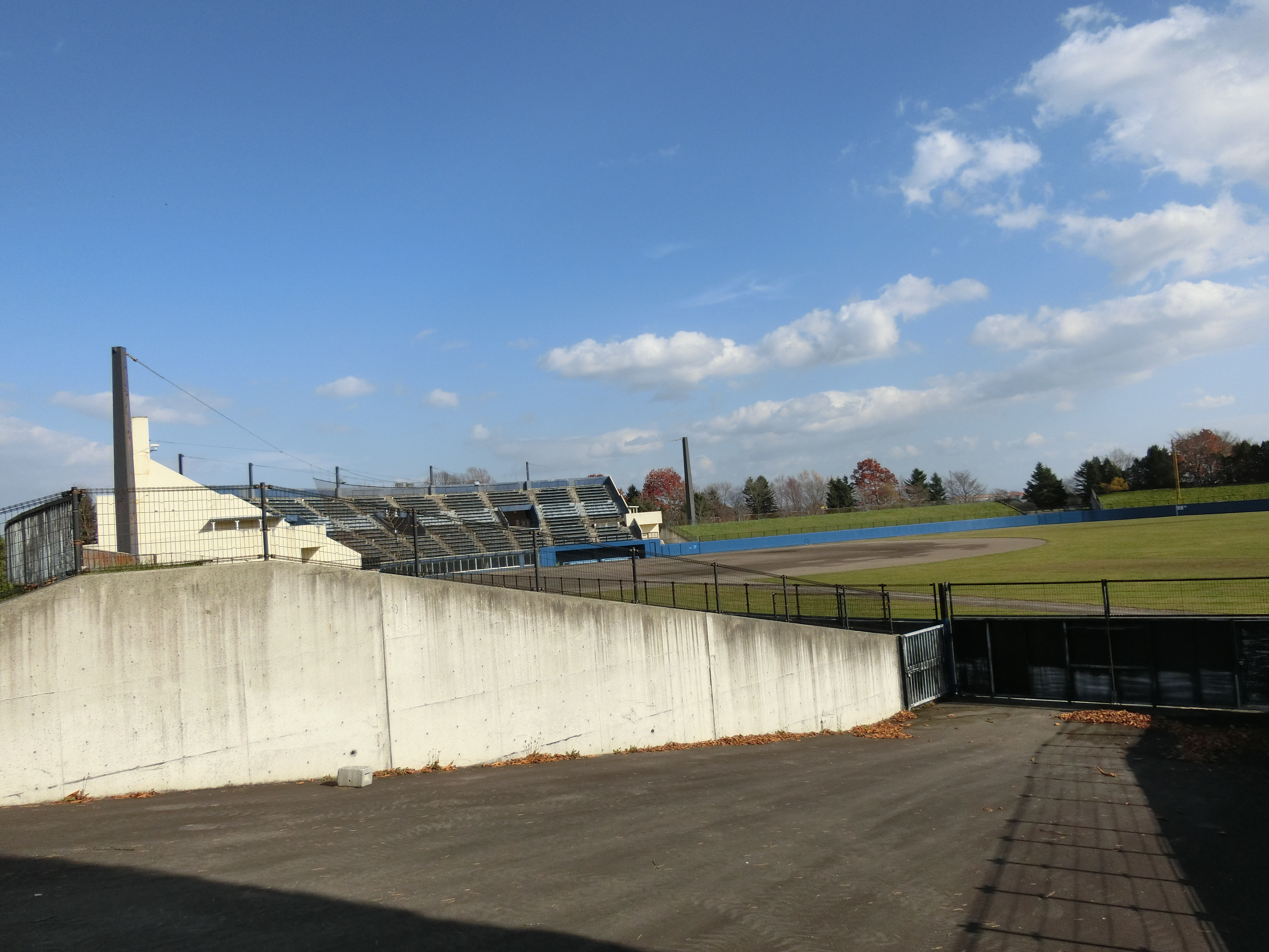 Baseball stadium located in Nopporo Sports Park in Ebetsu